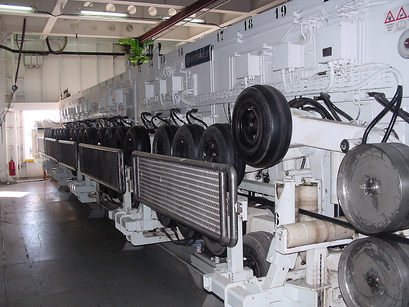 Linear Cable Engin of the C/S Oceanic Viking